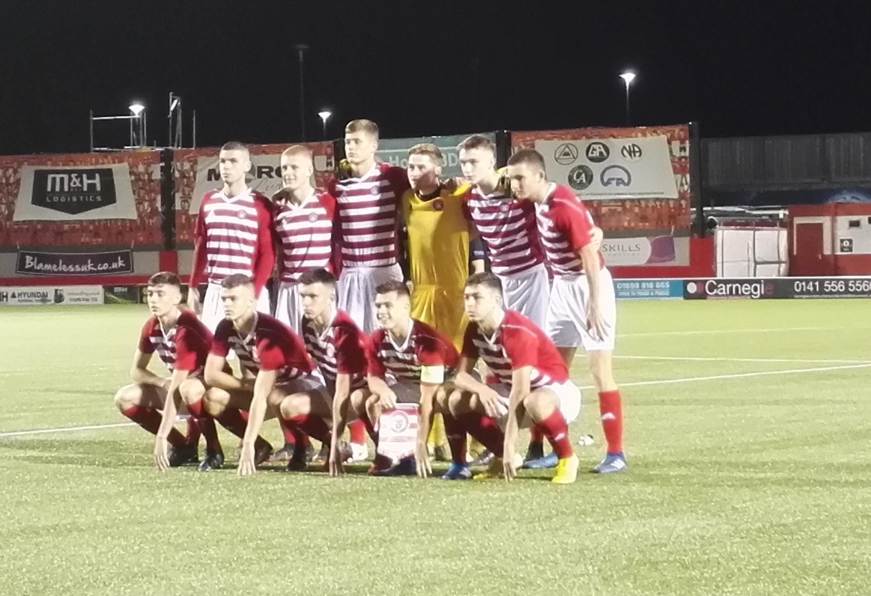 Hamilton Academical under 19 team photo prior to UEFA Youth League match v FC Basel, 2018